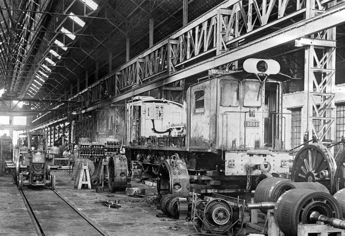 Working hall of the State Railway Company in Manggarai, Batavia